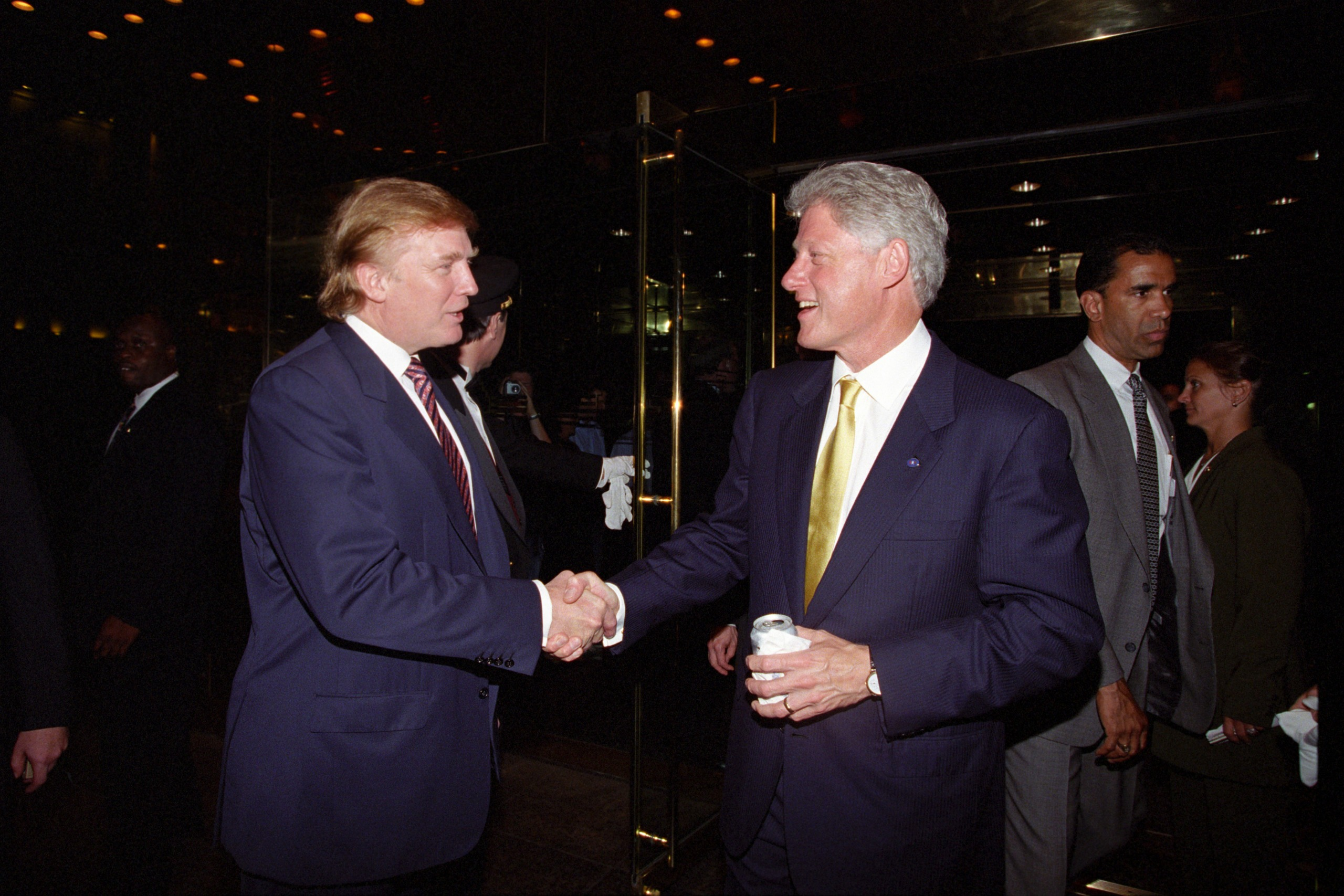 Donald Trump shaking hands with Bill Clinton at Trump Tower in 2000